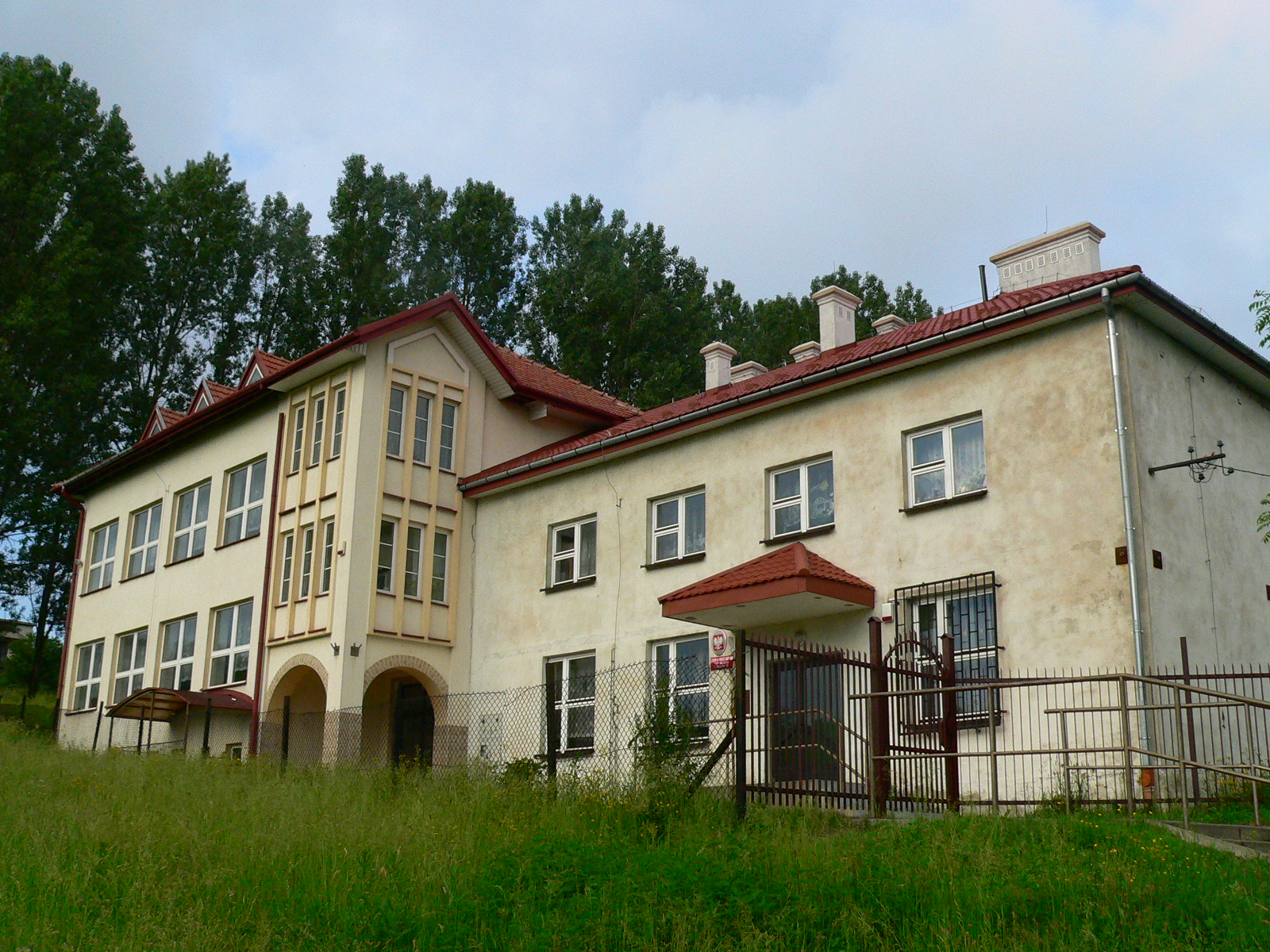 The elementary and secondary school in Golkowice (Poland)